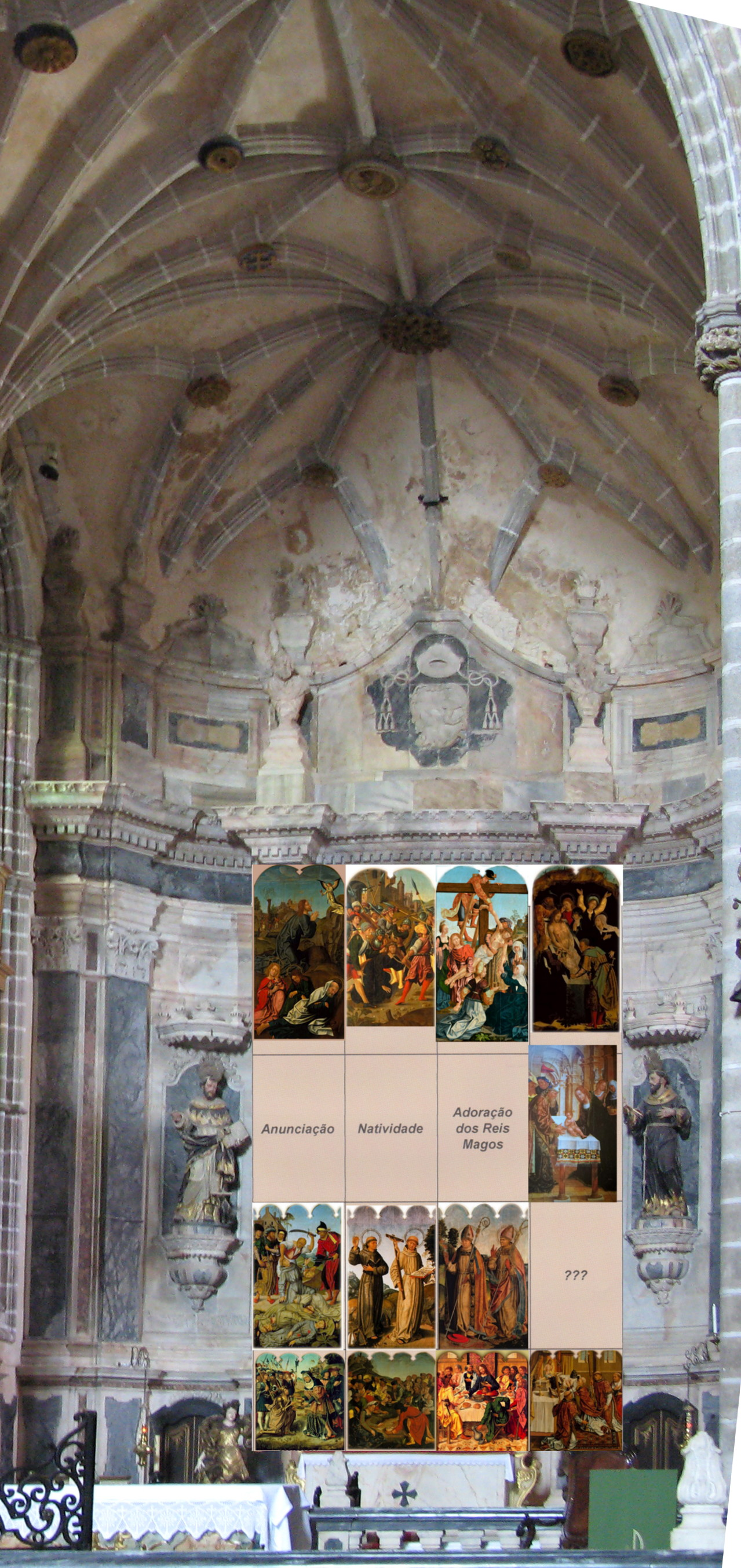 Reconstruction of interior of Sao Francisco church (main chapel area), Évora, Portugal